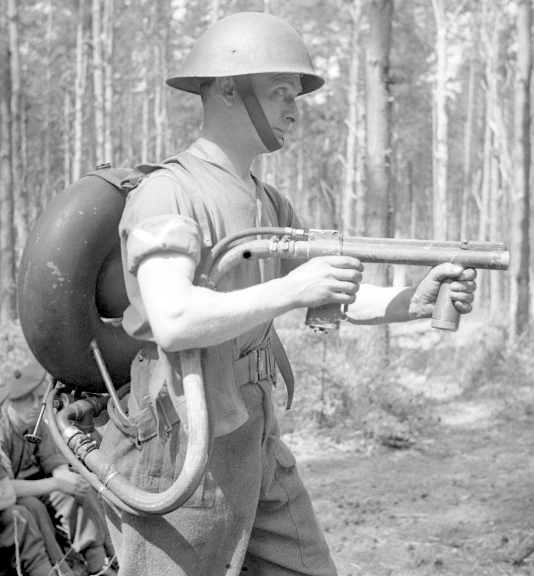 A soldier with 1st Battalion, King's Own Scottish Borderers, demonstrates the Lifebuoy man-portable flamethrower, Denmead, Hampshire, 29 April 1944.